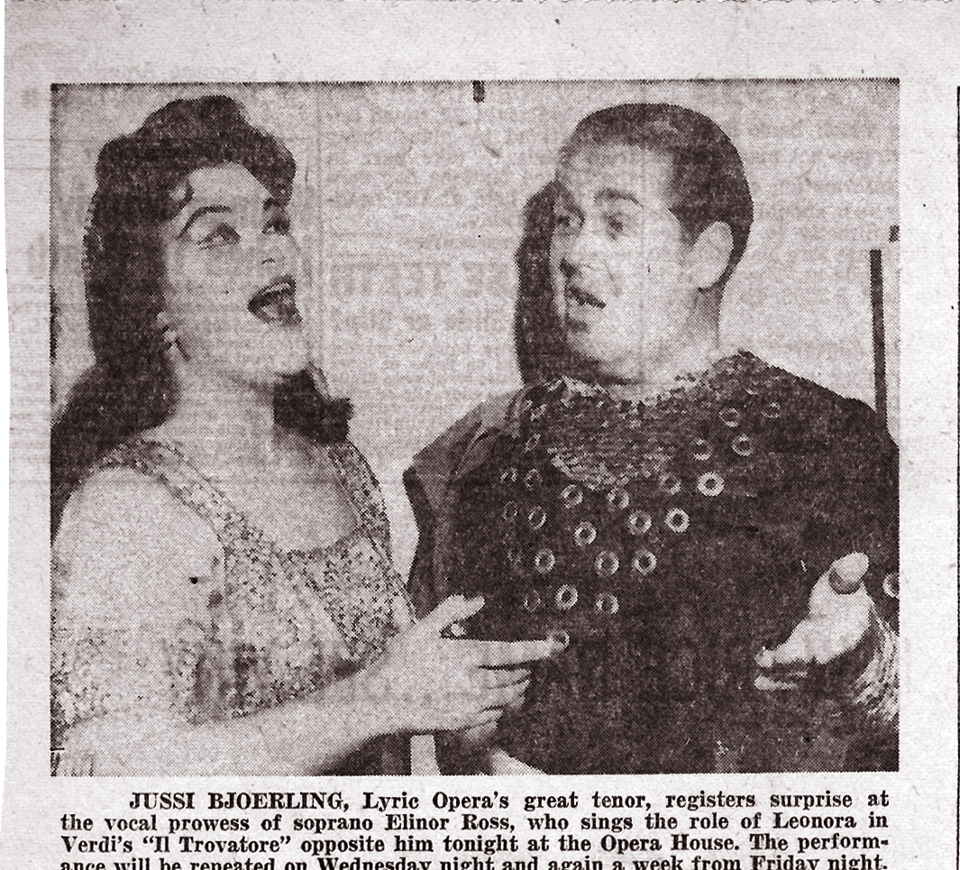 Soprano Elinor Ross with tenor Jussi Bjoerling before her debut with the Chicago Opera in 1958 in the role of Leonora in Verdi's Il Trovatore